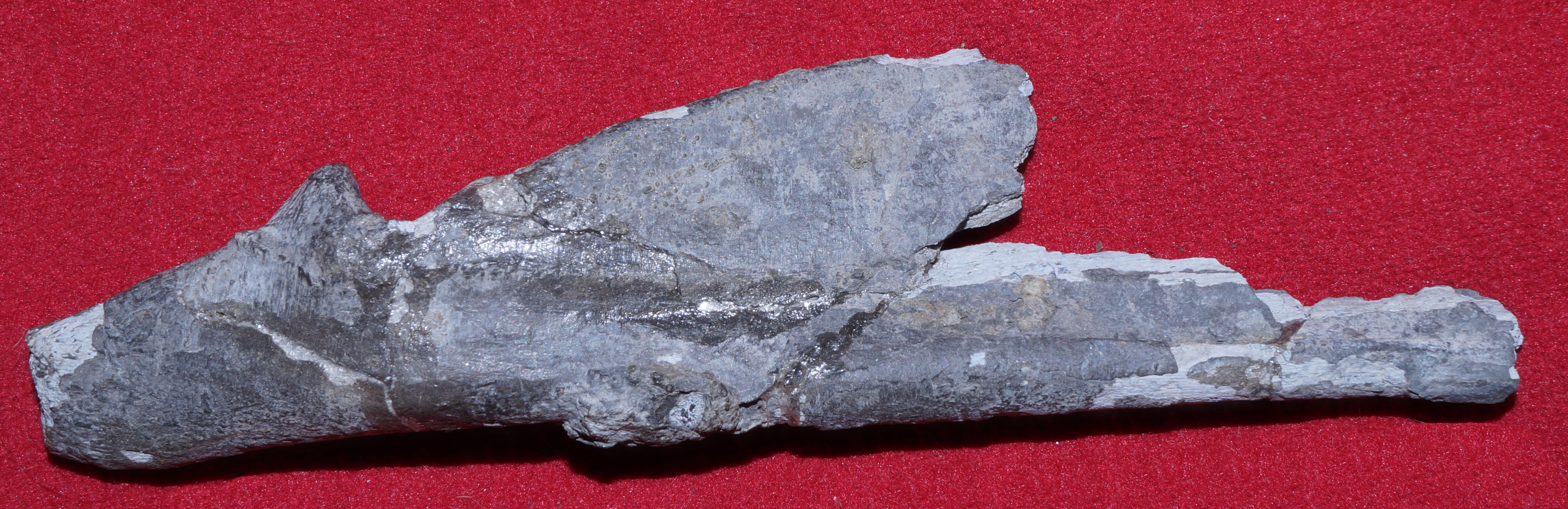 Arminisaurus schuberti (NAMU ES/jl 36052), a plesiosaurian from the Pliensbachian of Bielefeld (Germany). Rear part of right lower jaw ramus in side view.